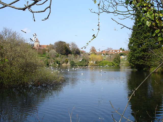 Stonebridge Pond Originally part of Faversham Creek, Stonebridge Pond became a mill pond for a flour mill which was later used in the gunpowder industry. The tower on the left is part of Davington Priory which has been home to Bob Geldof for some years.